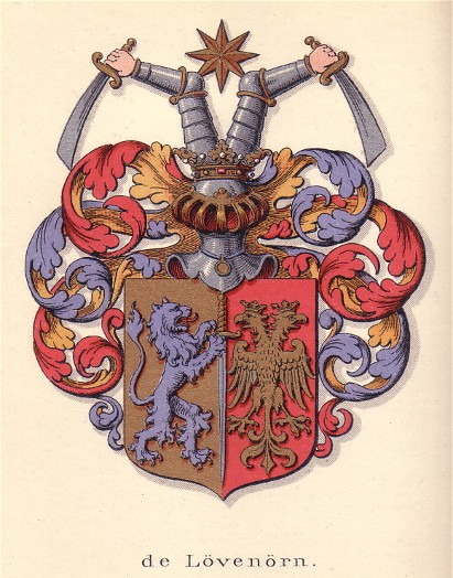 Coat of arms of the Løvenørn family